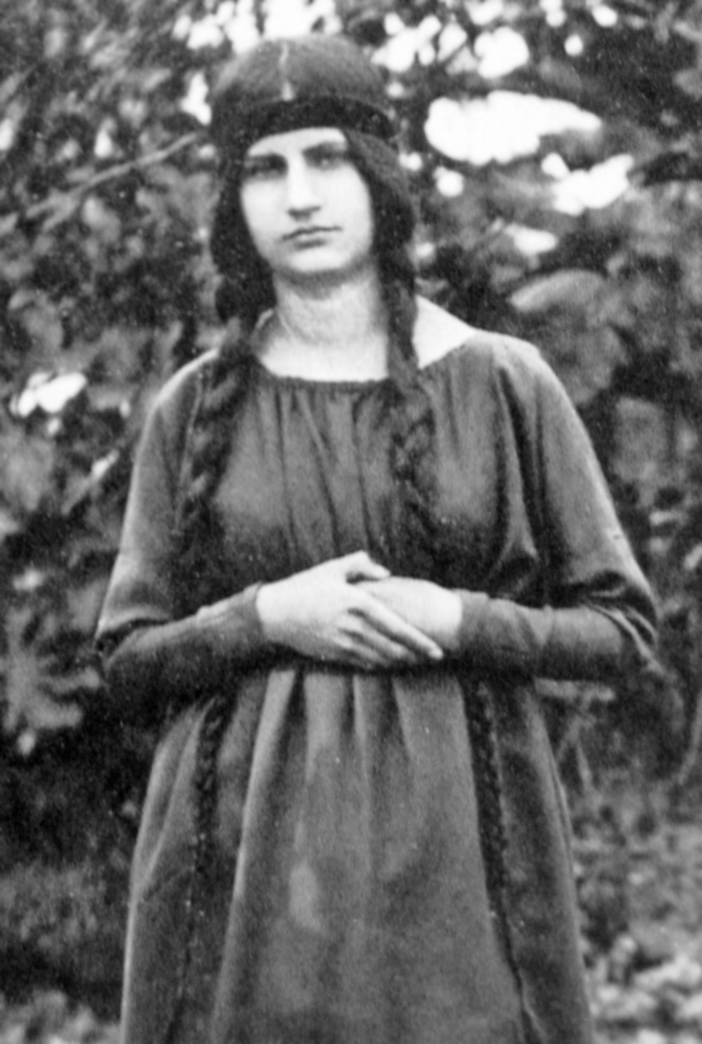 Jeanne Hébuterne at 19 years.